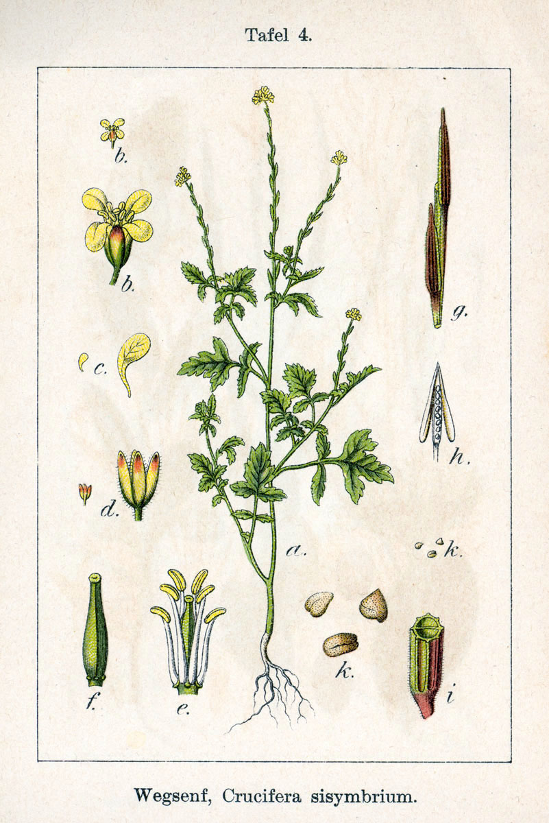 Sisymbrium officinale var. officinale, syn. Crucifera sisymbrium E.H.L.Krause Original Description Wegsenf, Crucifera sisymbrium